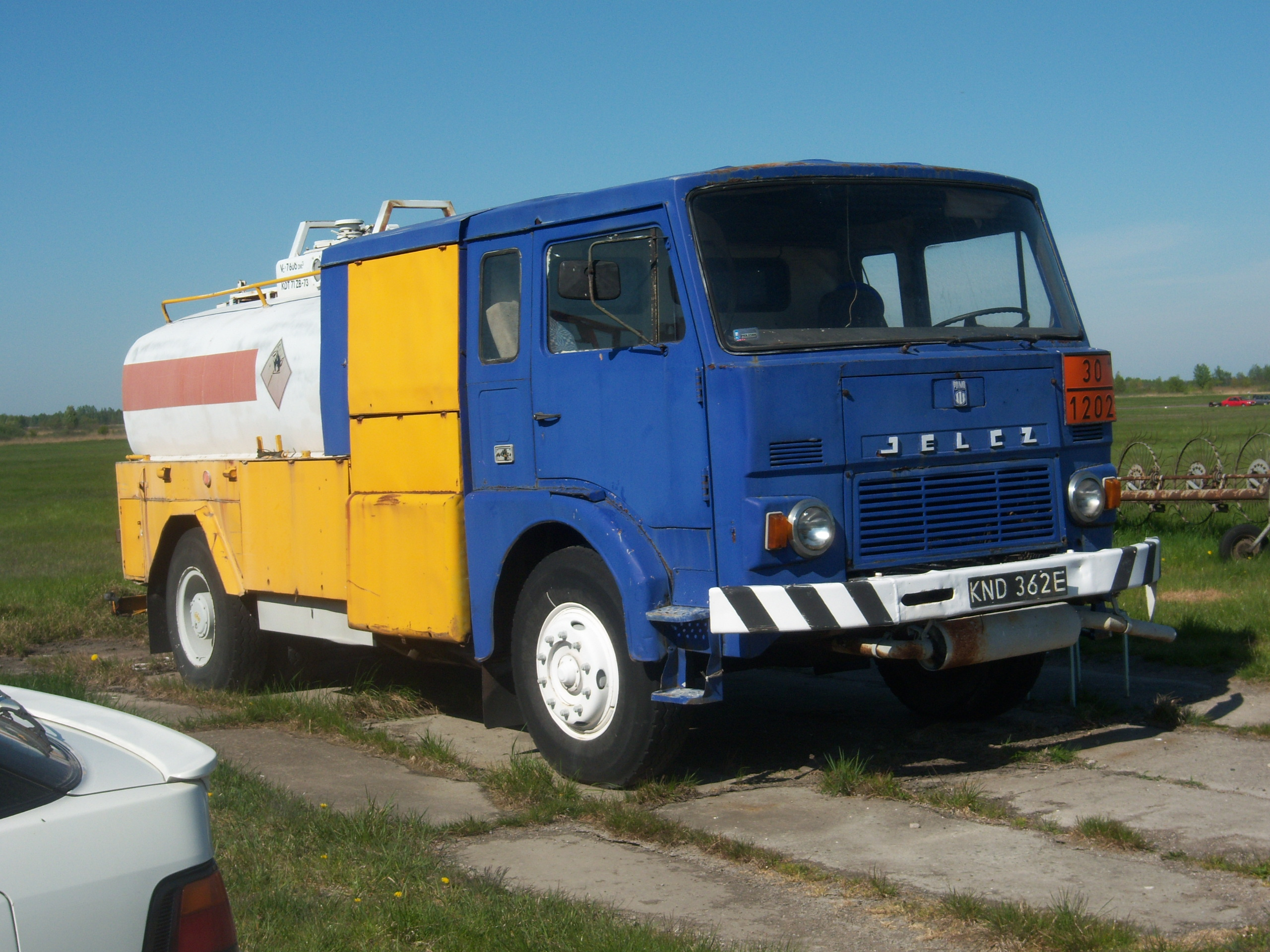 Aeroklub's fuel tank truck